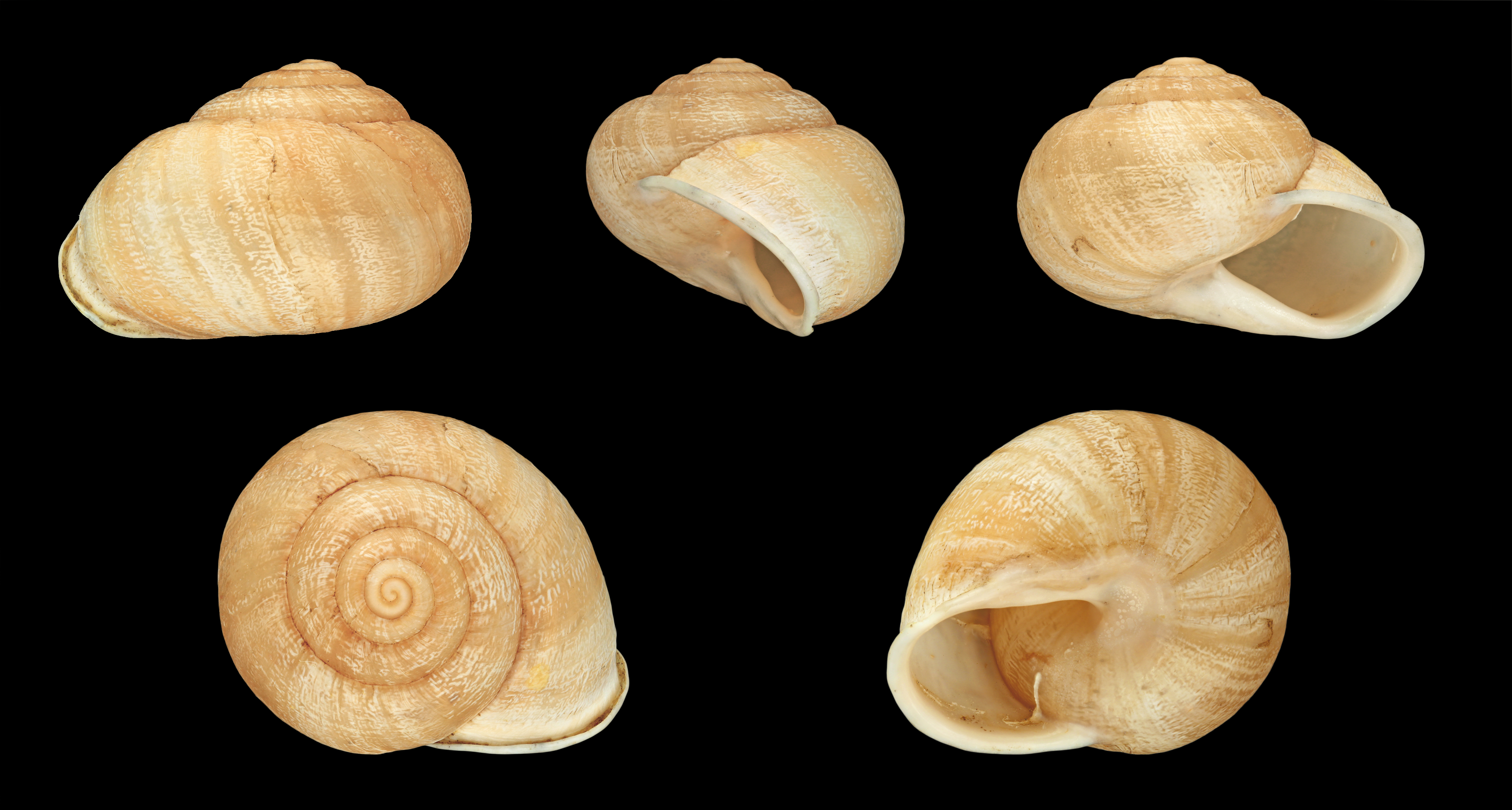 Eobania vermiculata (Müller, 1774) , Chocolate-band Snail, cream-coloured form; diameter 3.1 cm; Originating from Port Leucate, France, 42°52′49.09″N 3°2′54.72″E / 42.8803028°N 3.0485333°E; Shell of own collection, therefore not geocoded.